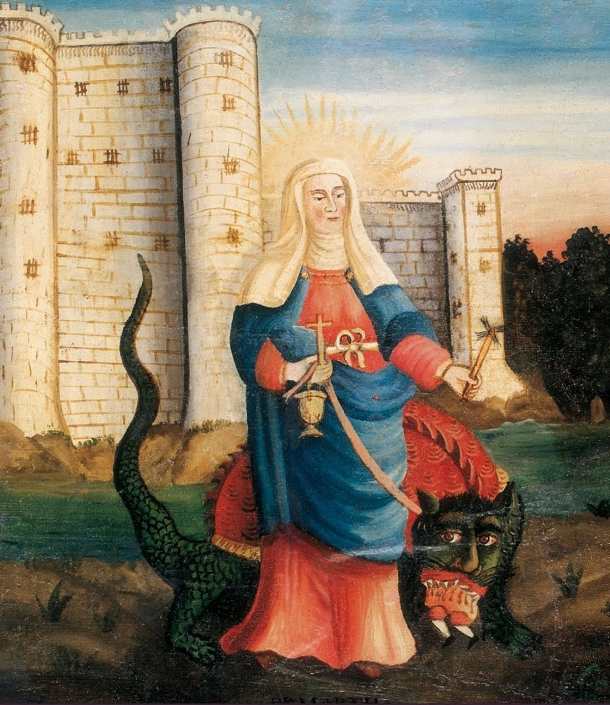 Marta and the Tarasque XVIIIe